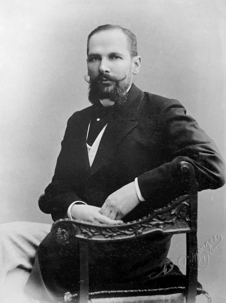 Photo of Pyotr Stolypin in 1902 made by unknown photograf